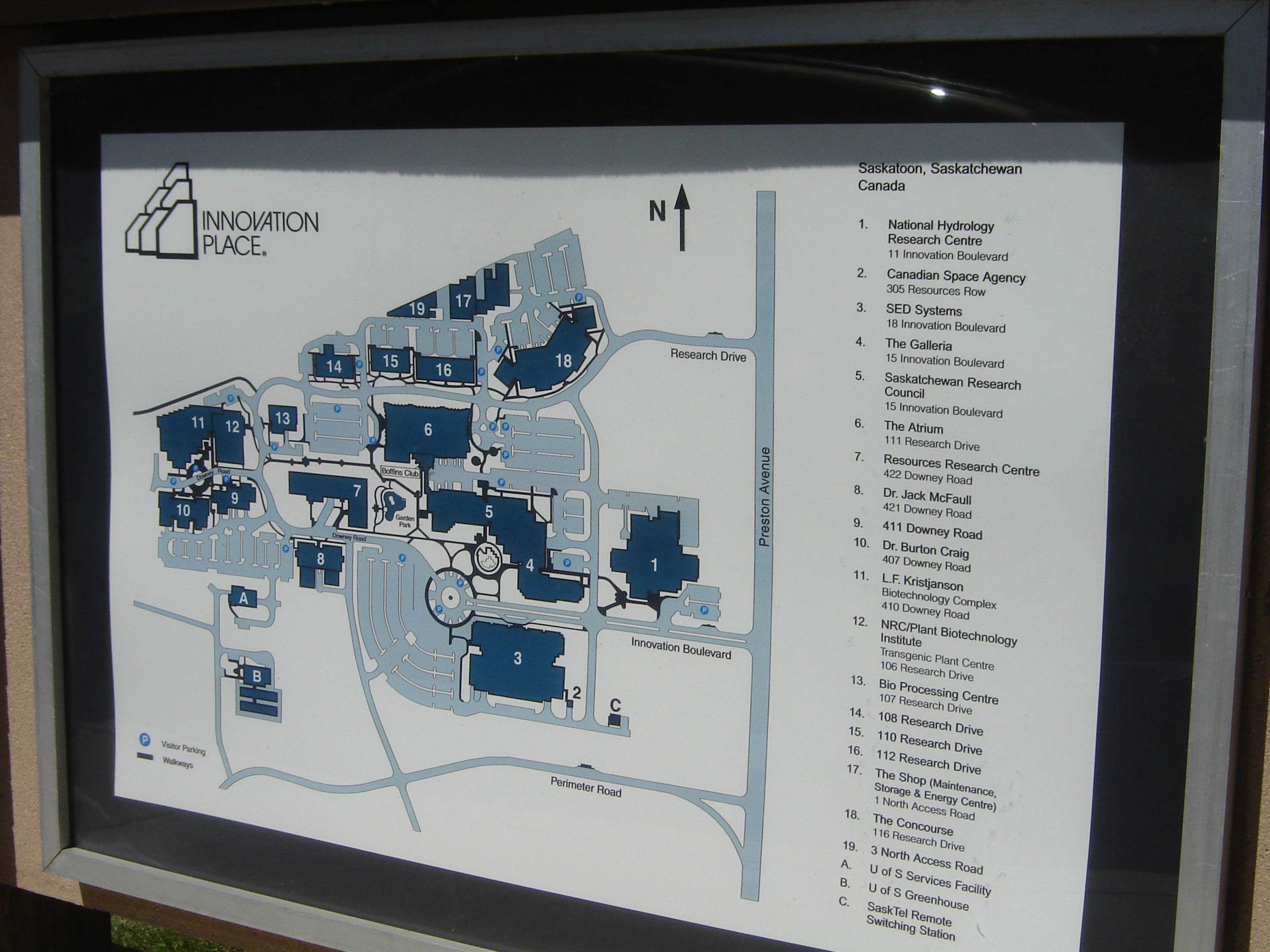 University of Saskatchewan Innovation Place U of S Saskatoon Saskatchewan Canada